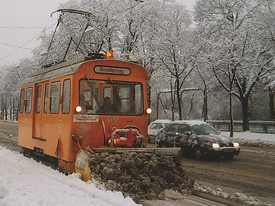 tram snow plow LH Nr. 6452 cleaning tracks on Ringstraße near Burgtheater in Vienna, Austria